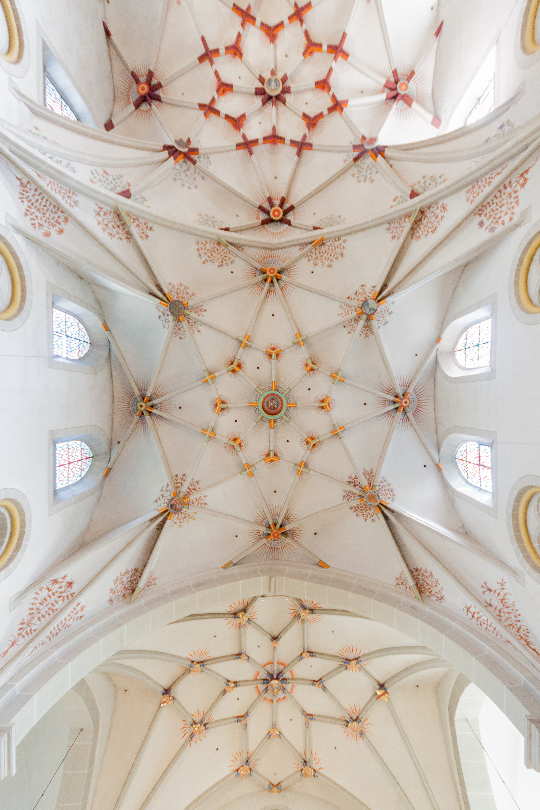 Basilica St. Castor in Koblenz